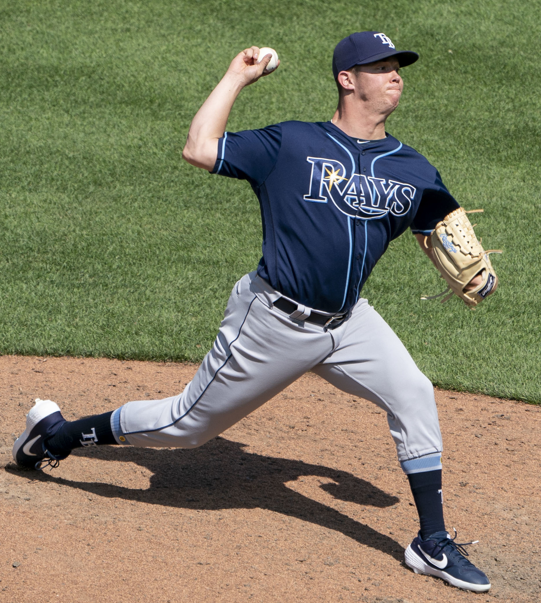 Emilio Pagan delivers a pitch for Tampa Bay Rays during a 2019 game at Camden Yards in Baltimore